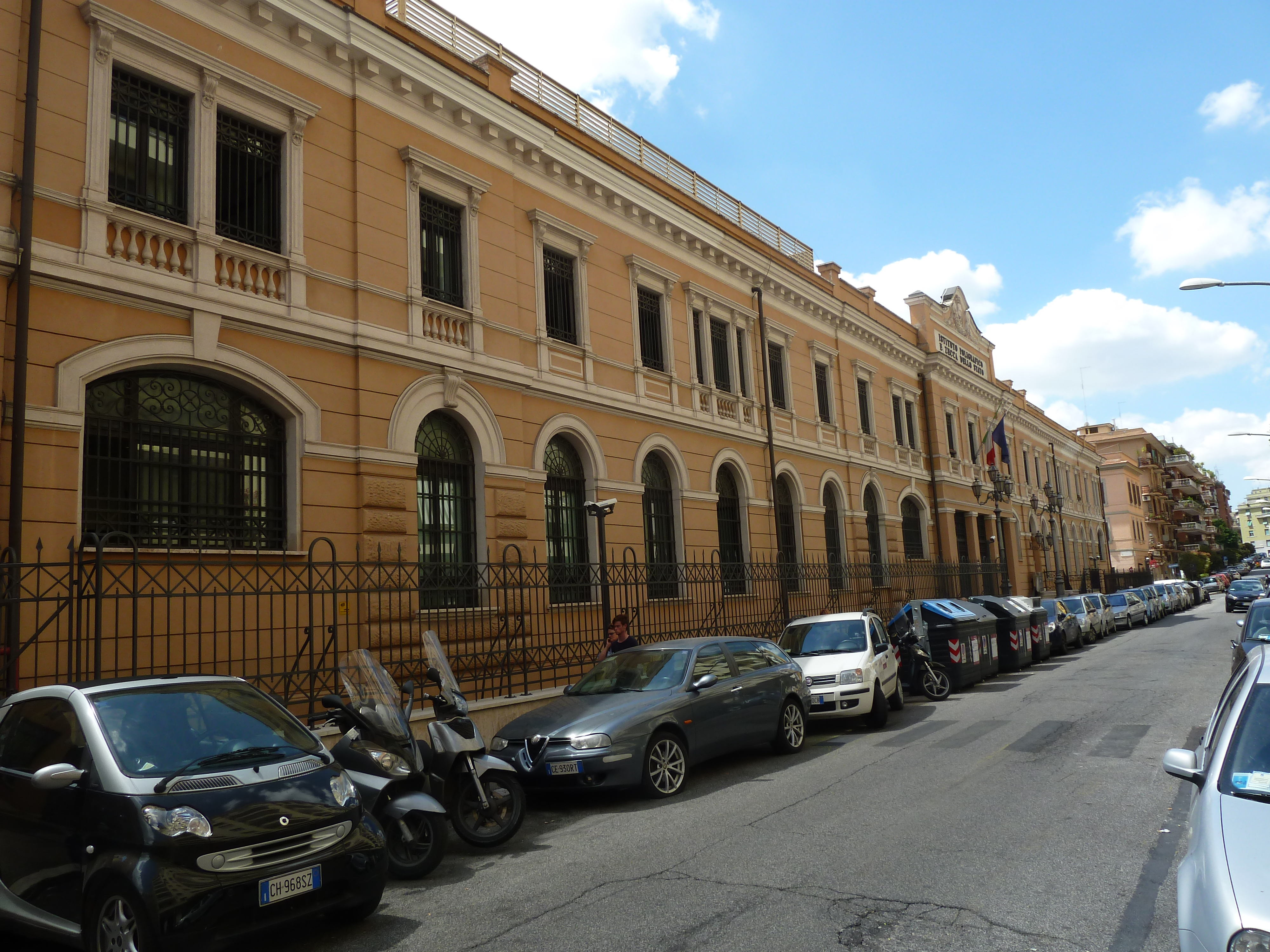 Istituto Poligrafico Zecca Stato Rome